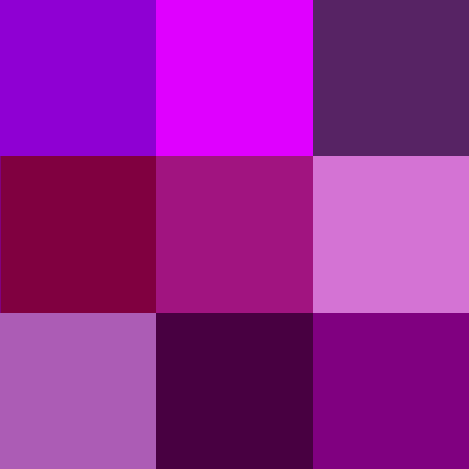 Shades of purple